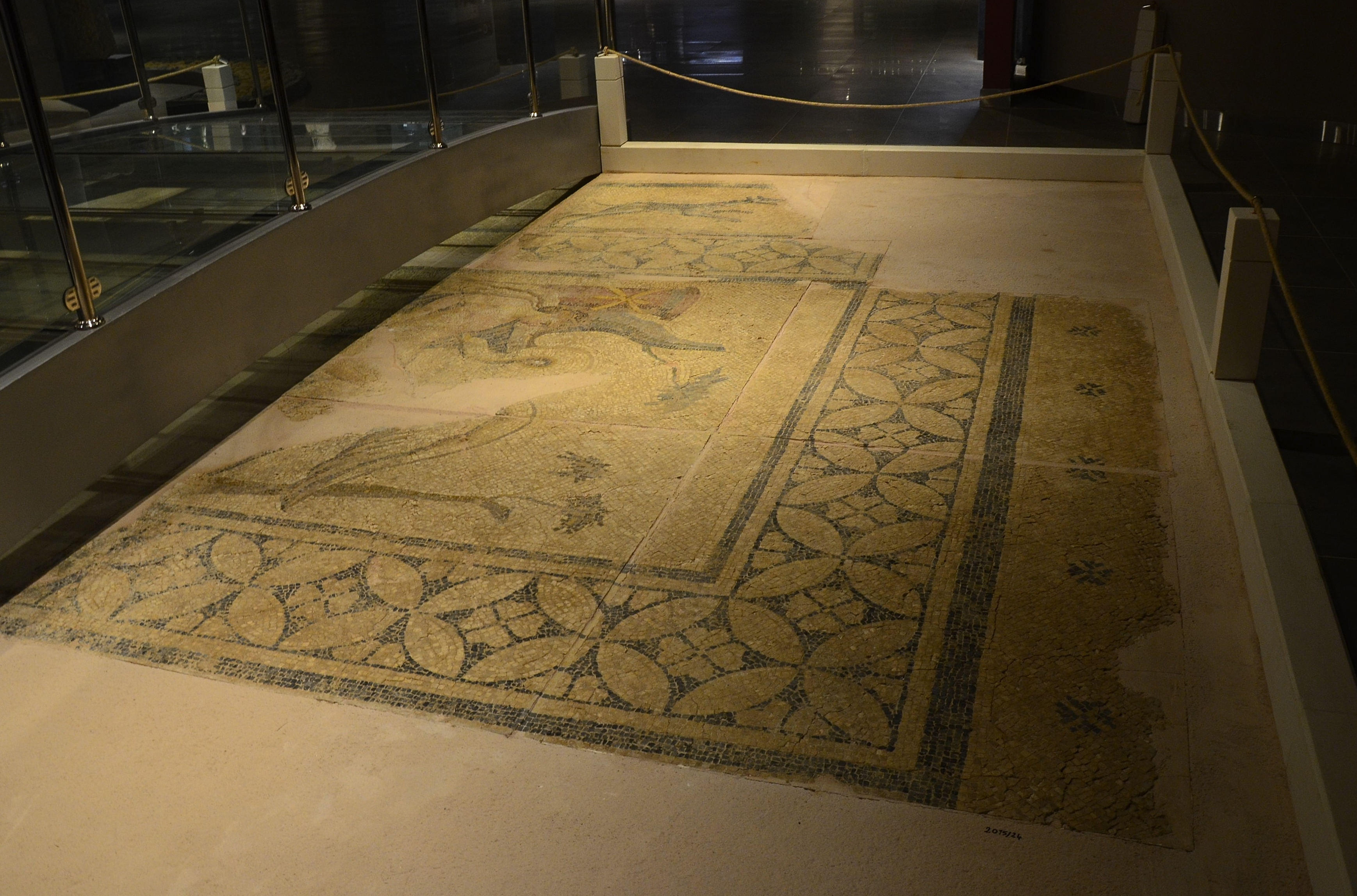 Mosaics from a 2nd-century Roman villa in Orthosia on display at Aydın Archaeological Museum